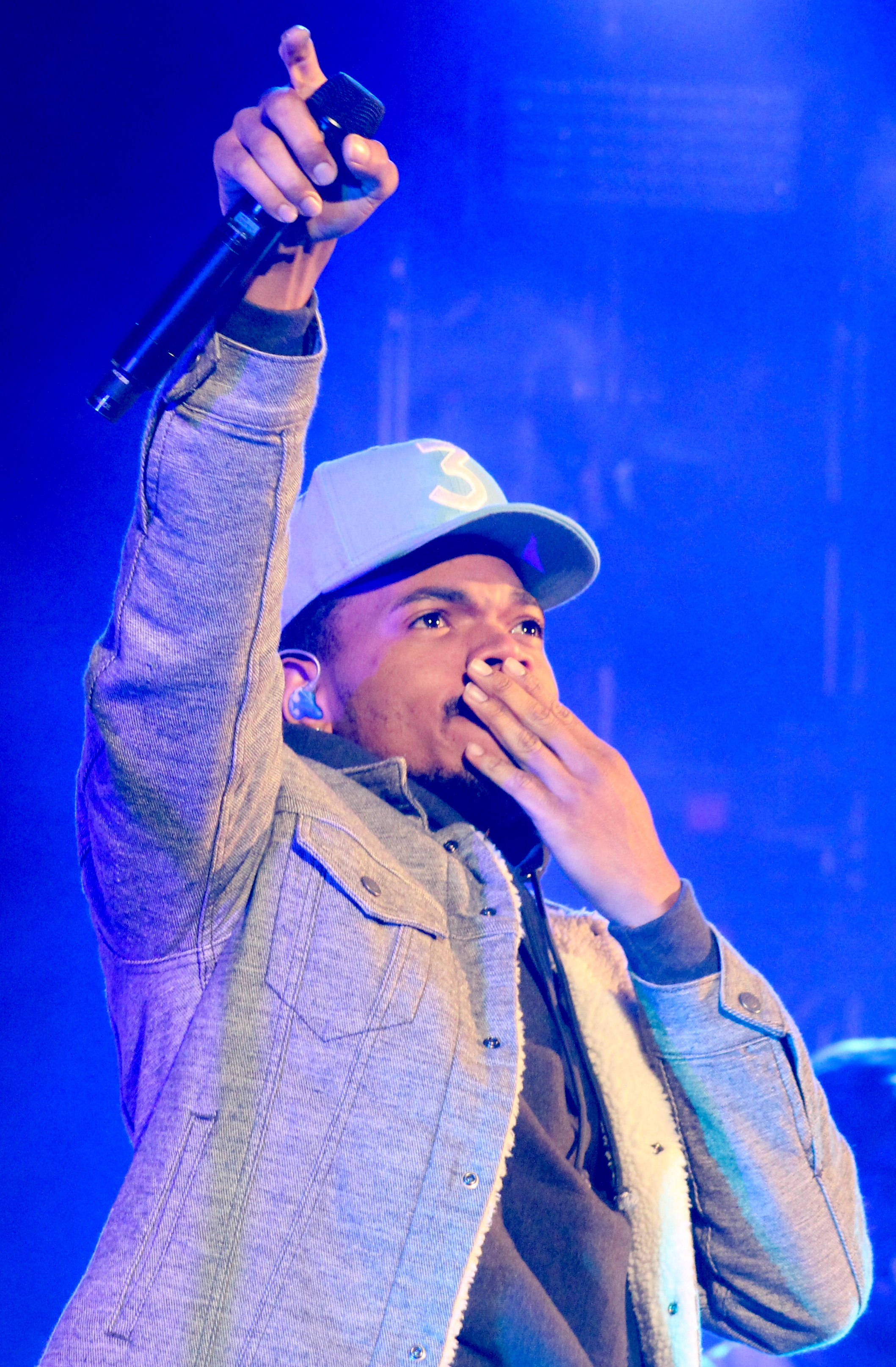 Chance the Rapper performing in Red Rocks, Colorado, May 2017